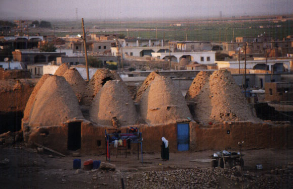 Traditional mud brick houses shaped like beehives, in the ancient village of Harran, Turkey. Photographed by Andy Carvin in September 1999.